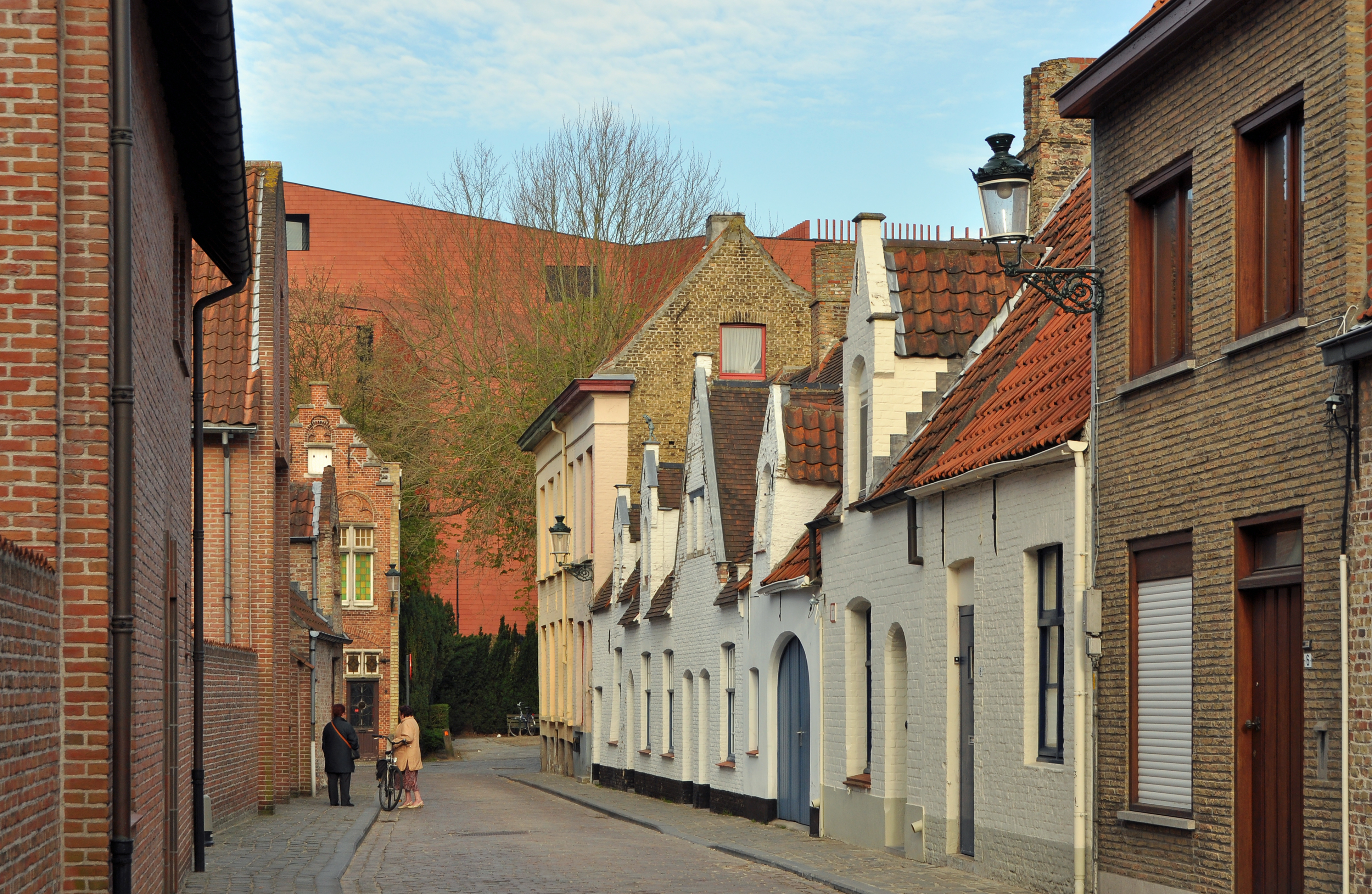 Bruges (Belgium): Sint-Jan in de Meers (street)